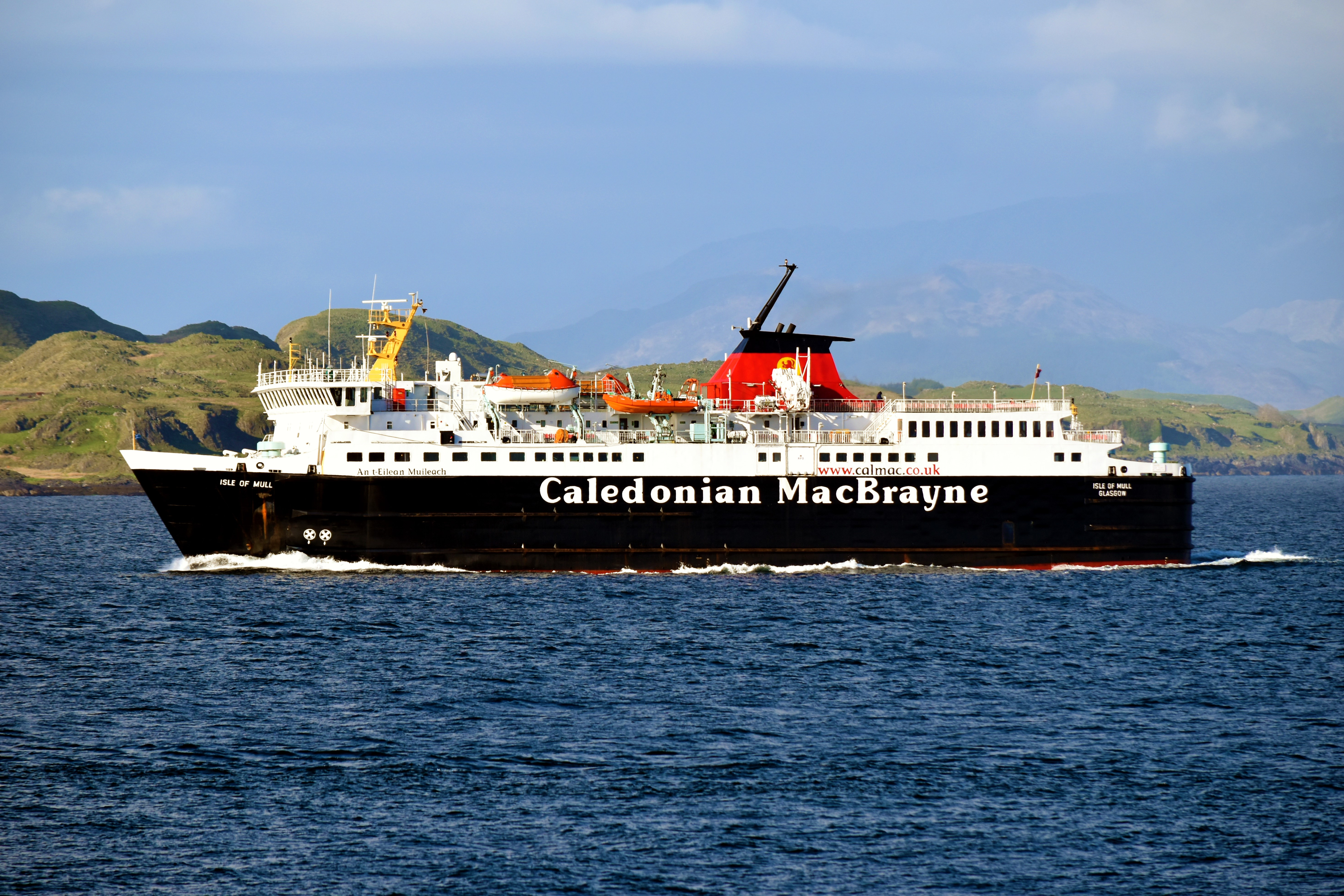 CalMac ferry Isle of Mull sailing from Oban to Craignure, 8 May 2018.